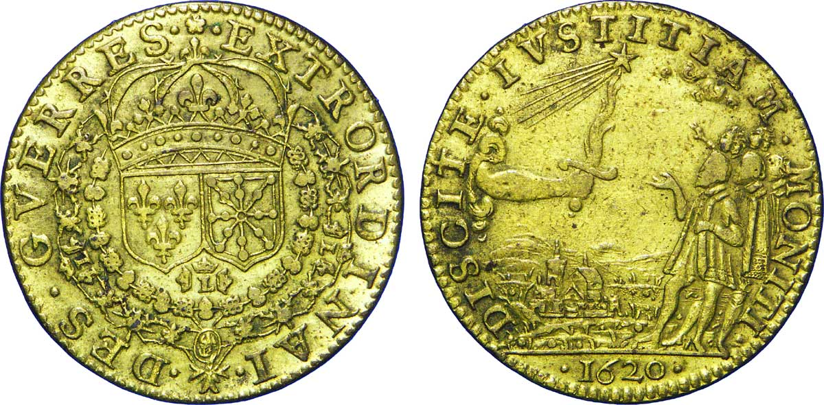 Imposition de la loi commune (l’édit de Nantes) en Béarn. Les protestants du Béarn avaient refusé d’appliquer l’édit de Nantes. En 1620, le jeune roi décide, seul et contre l’avis de son Conseil, de faire respecter l’édit en Béarn. Il quitte Poitiers en septembre à la tête de son armée qui doit mettre le siège aux places fortes du Béarn. Le 15 octobre, le roi entre à Pau et reçoit l’allégeance des Béarnais, le catholicisme est rétabli et les biens du clergé confisqués par les Protestants reviennent à leurs propriétaires légitimes. La légende de revers et le motif se rattachent probablement à cet épisode, la ville du revers pourrait symboliser Pau et le Béarn, les montagnes sont les Pyrénées. Description revers : En face d’un groupe d’hommes regardant à gauche, un bras sortant d’un nuage et tenant une épée flamboyante, au-DESsus de laquelle brille une étoile ; au second plan, une ville, avec DES montagnes dans le lointain ; à l’exergue : .1620. . Traduction revers : Apprenez la justice de celui qui en est éclairé .